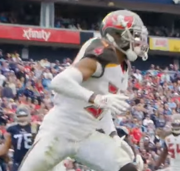 Carlton Davis 2019. Image from video Titans Mic'd Up vs. Bucs (Week 8) | Sounds of the Gamee, ~ 02:37.